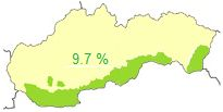 Region with a Hungarian-speaking majority in Slovakia.